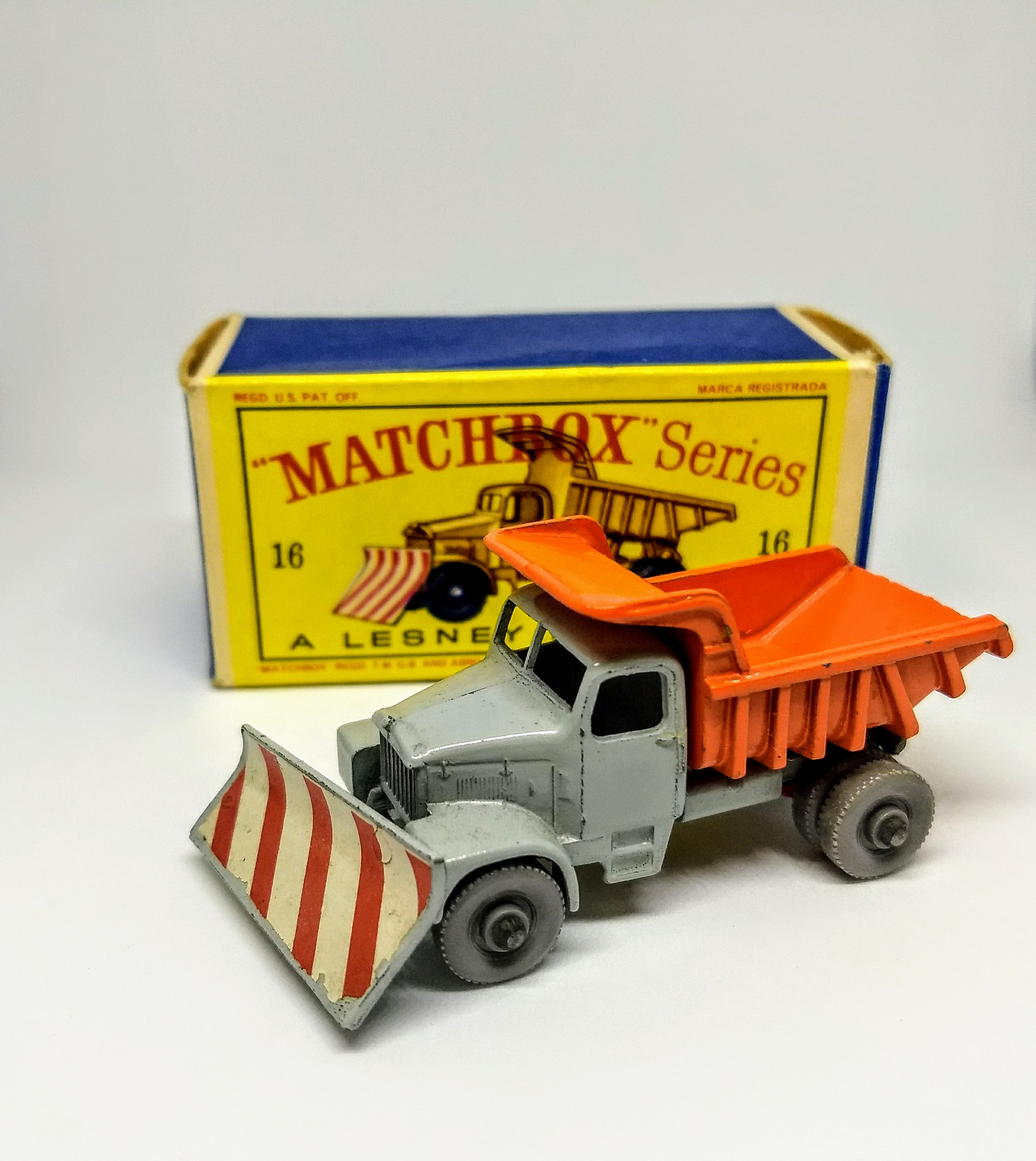 Scammell Snowplough with box by Matchbox